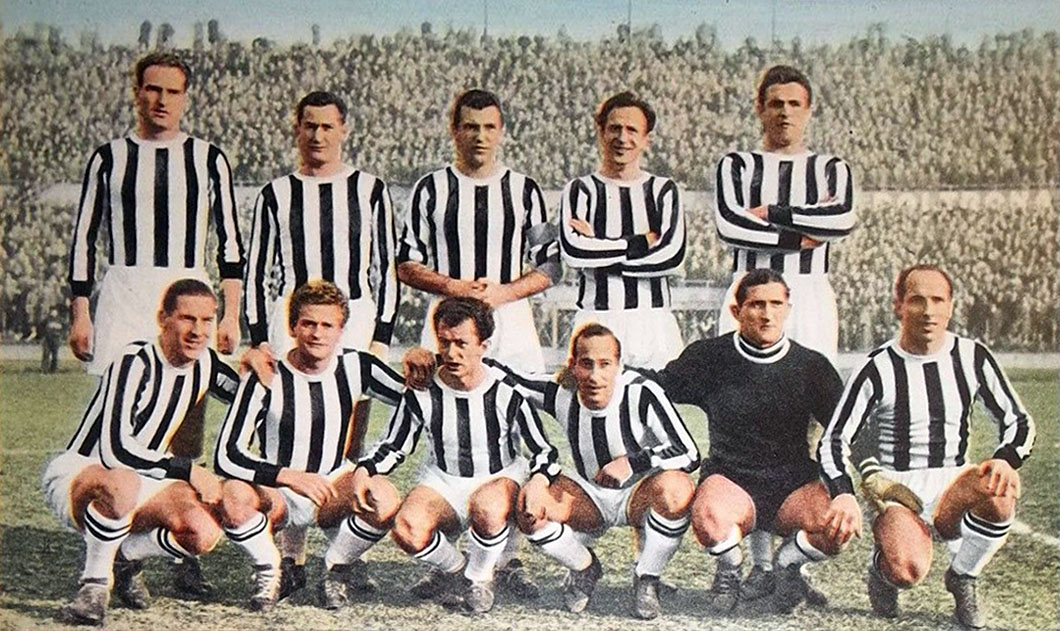 A line-up of Juventus F.C. in the 1953–54 season. From left to right, standing: J. Hansen, G. Oppezzo, C. Parola (captain), S. Manente, R. Ferrario; crouched: K. A. Præst, G. Boniperti, E. Muccinelli, E. Ricagni, G. Viola, A. Bertuccelli.